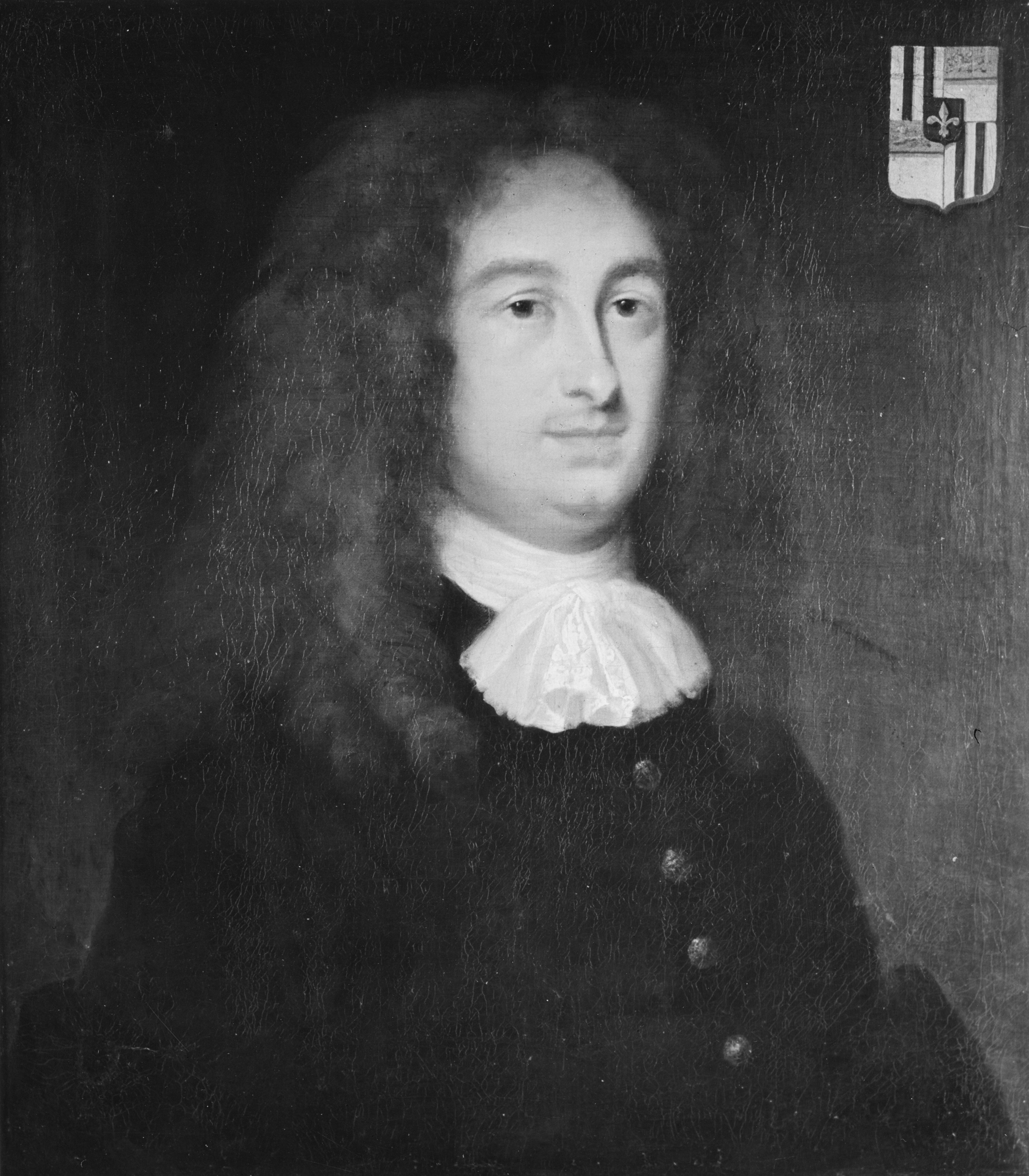 Portrait of Lodewijck Huygens, Dutch public servant, poet and musician